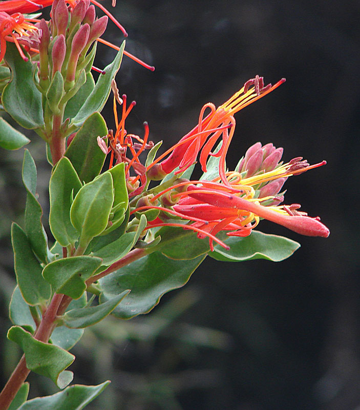 A Quintral or Suelda-suelda from western Peru. In context at